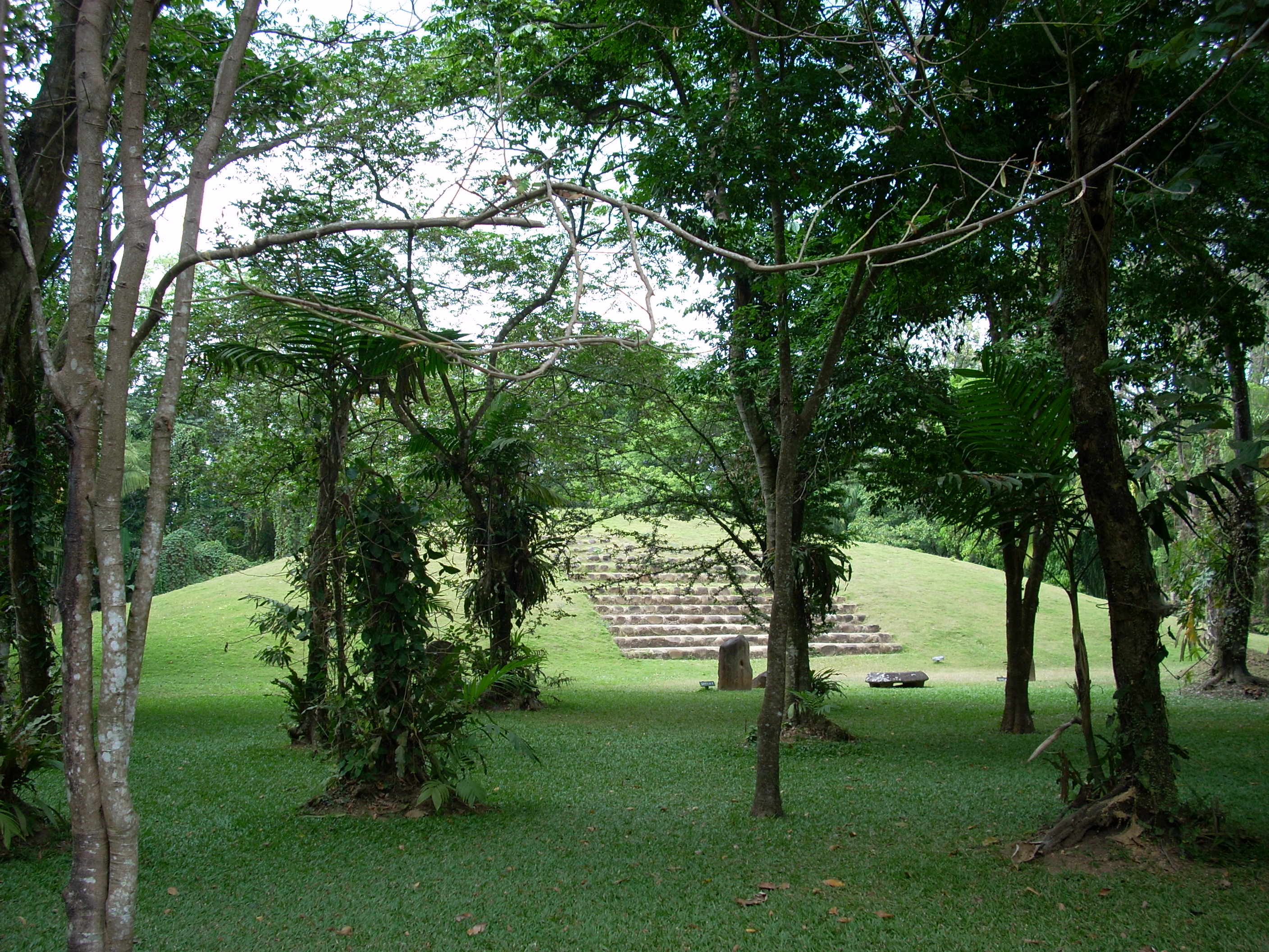 Structure 11 at Takalik Abaj.